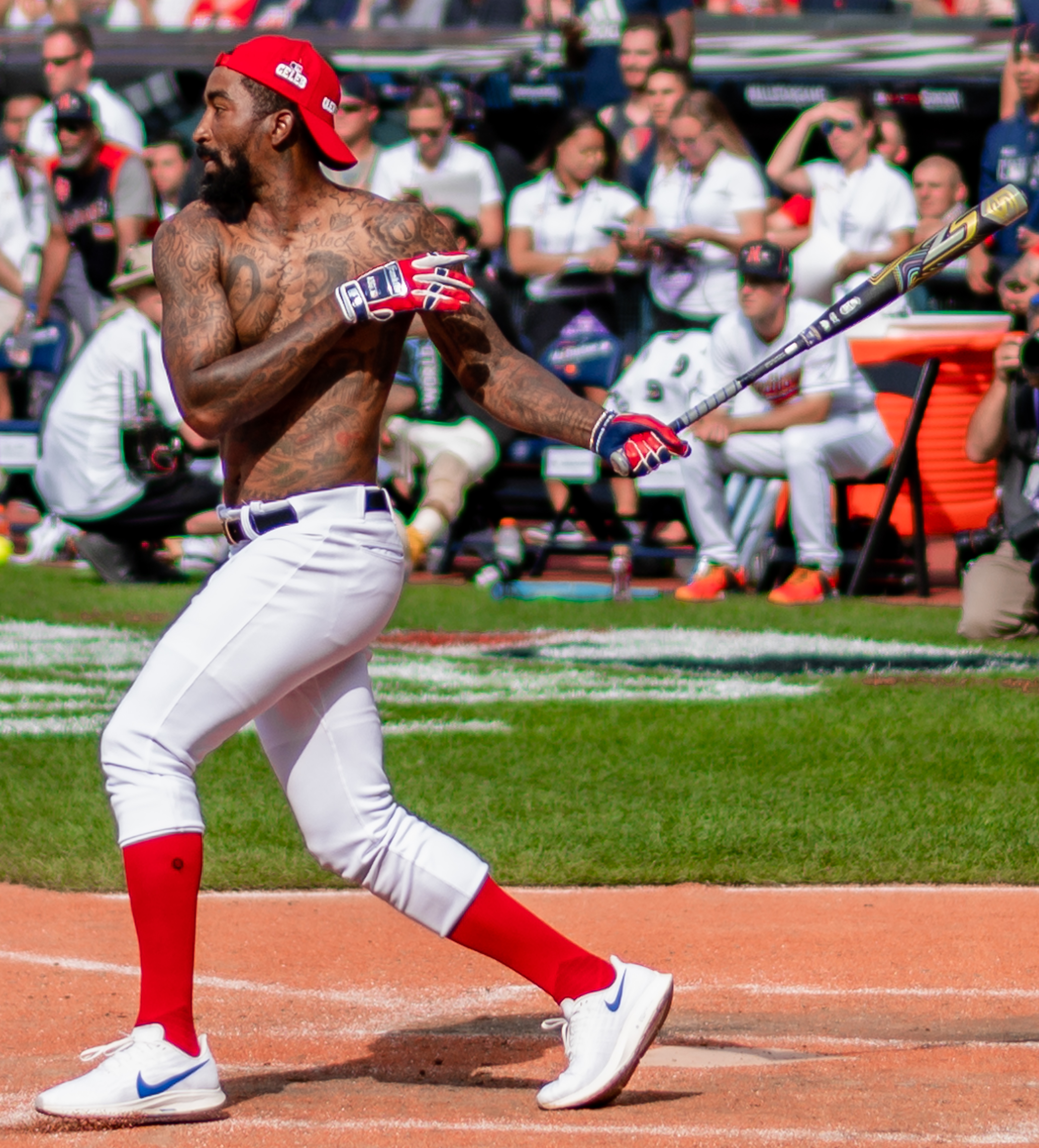 J. R. Smith swings at a pitch during the 2019 All-Star Legends & Celebrity Softball Game at Progressive Field in Cleveland.